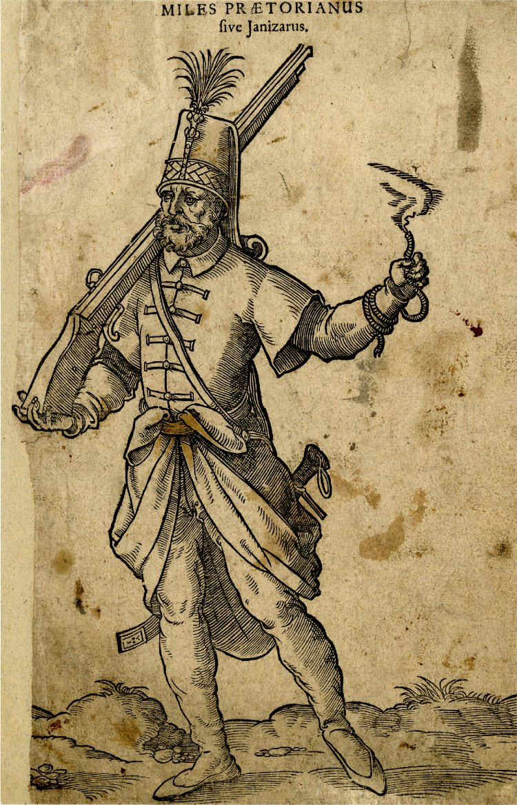 Ottoman Military Illustrations from Hans Weigel's Habitus Praecipuorum Populorum (Trachtenbuch), 1577